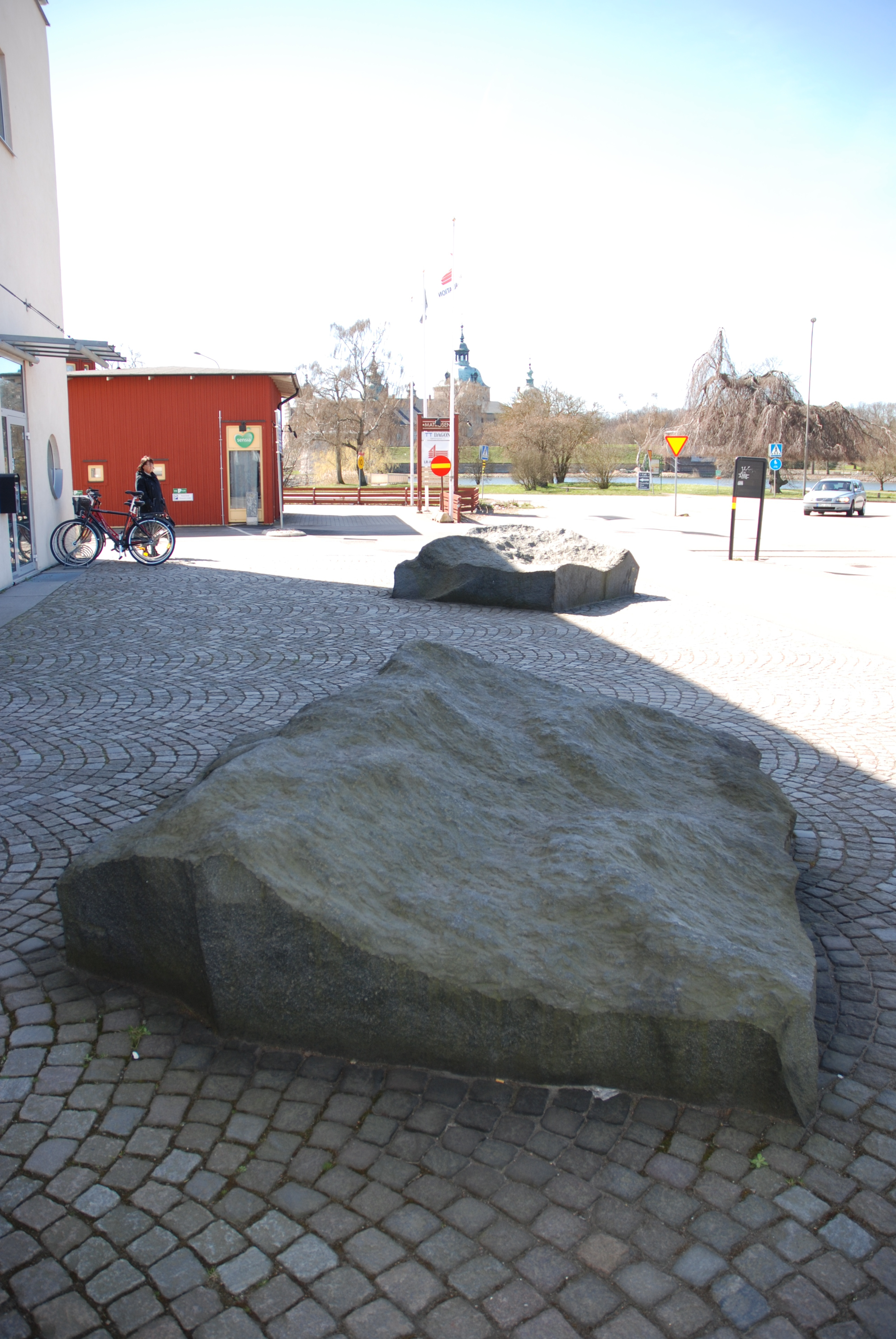 Edwin Böck´s Sju hav (Seven seas), diabase, Kalmar, Sweden